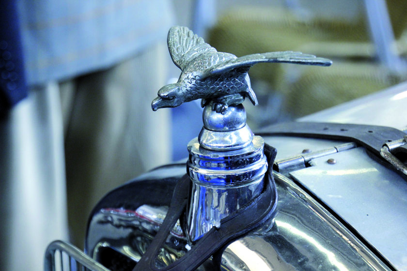 1928 Benova Typ B3 Biplace Sport_IMG_0151